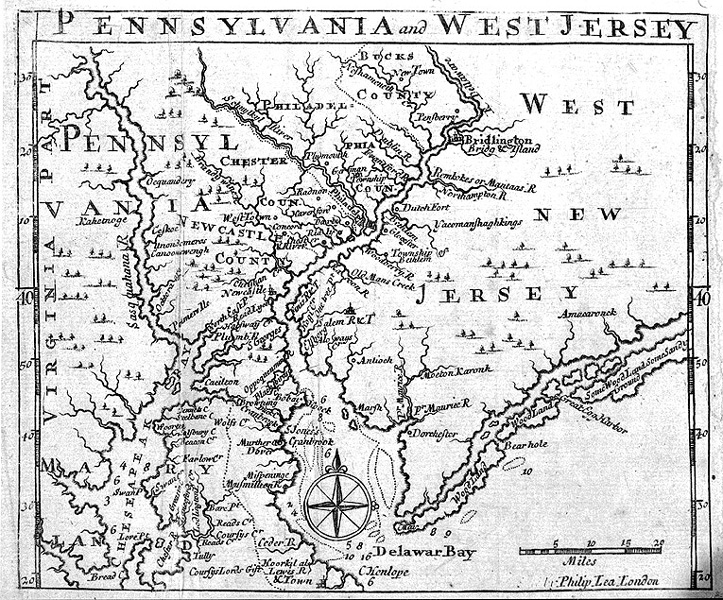 Map of Pennsylvania and "West New Jersey" published in 1698 by Philip Lea in London.